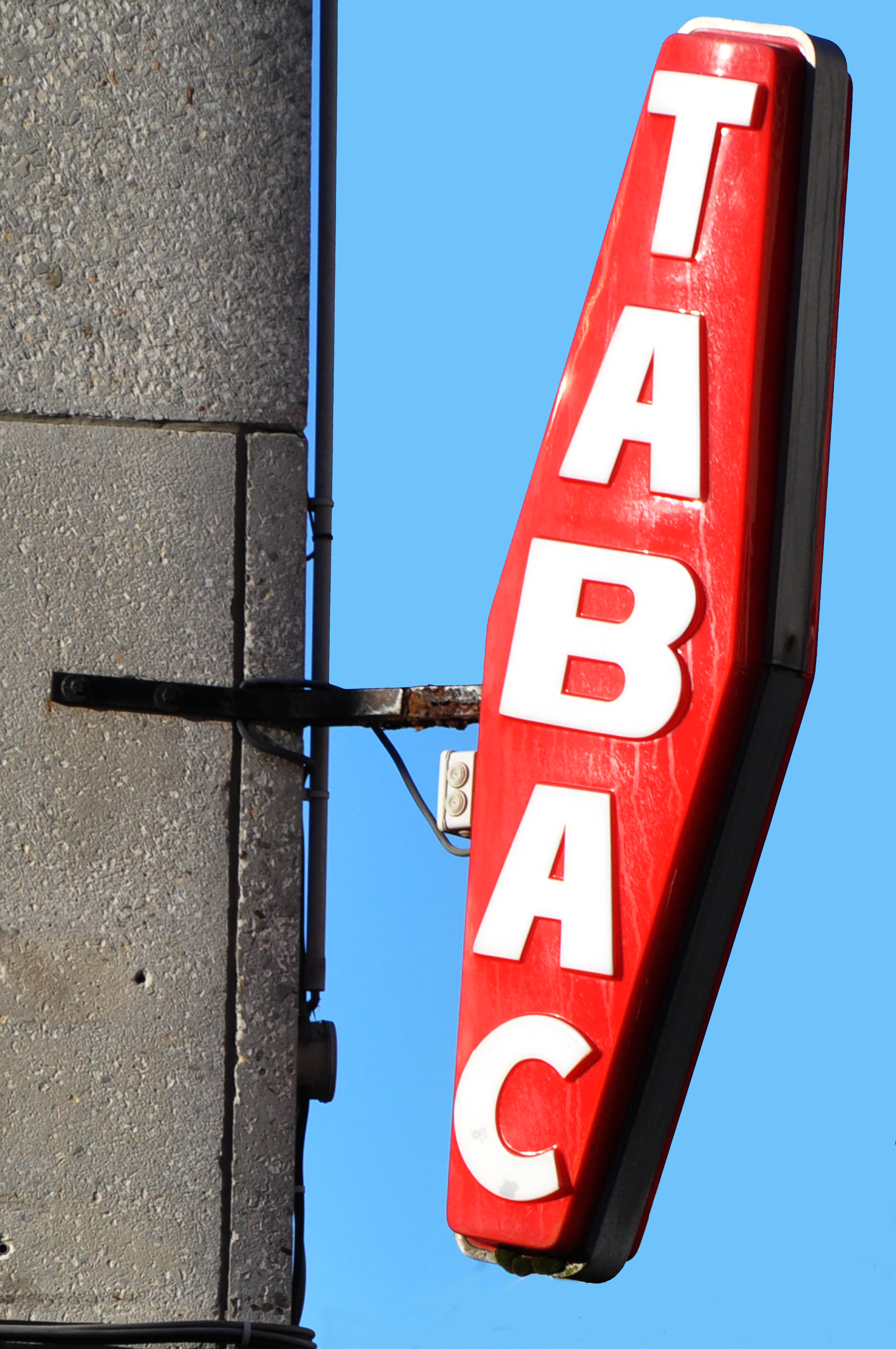 Tobacco signs in France